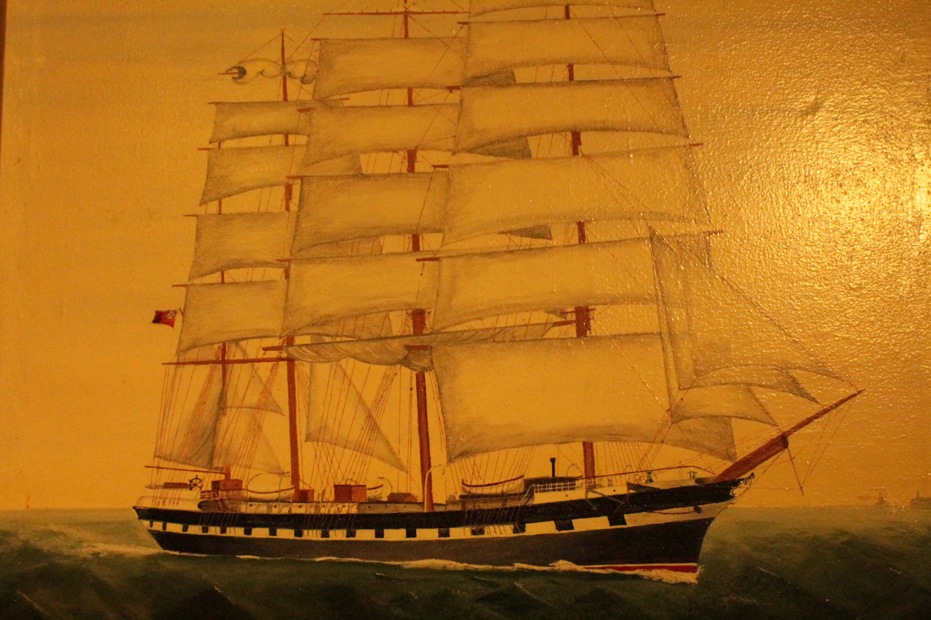 Sailing ship "Port Jackson" by Alexander Hall & Sons, Aberdeen Maritime Museum